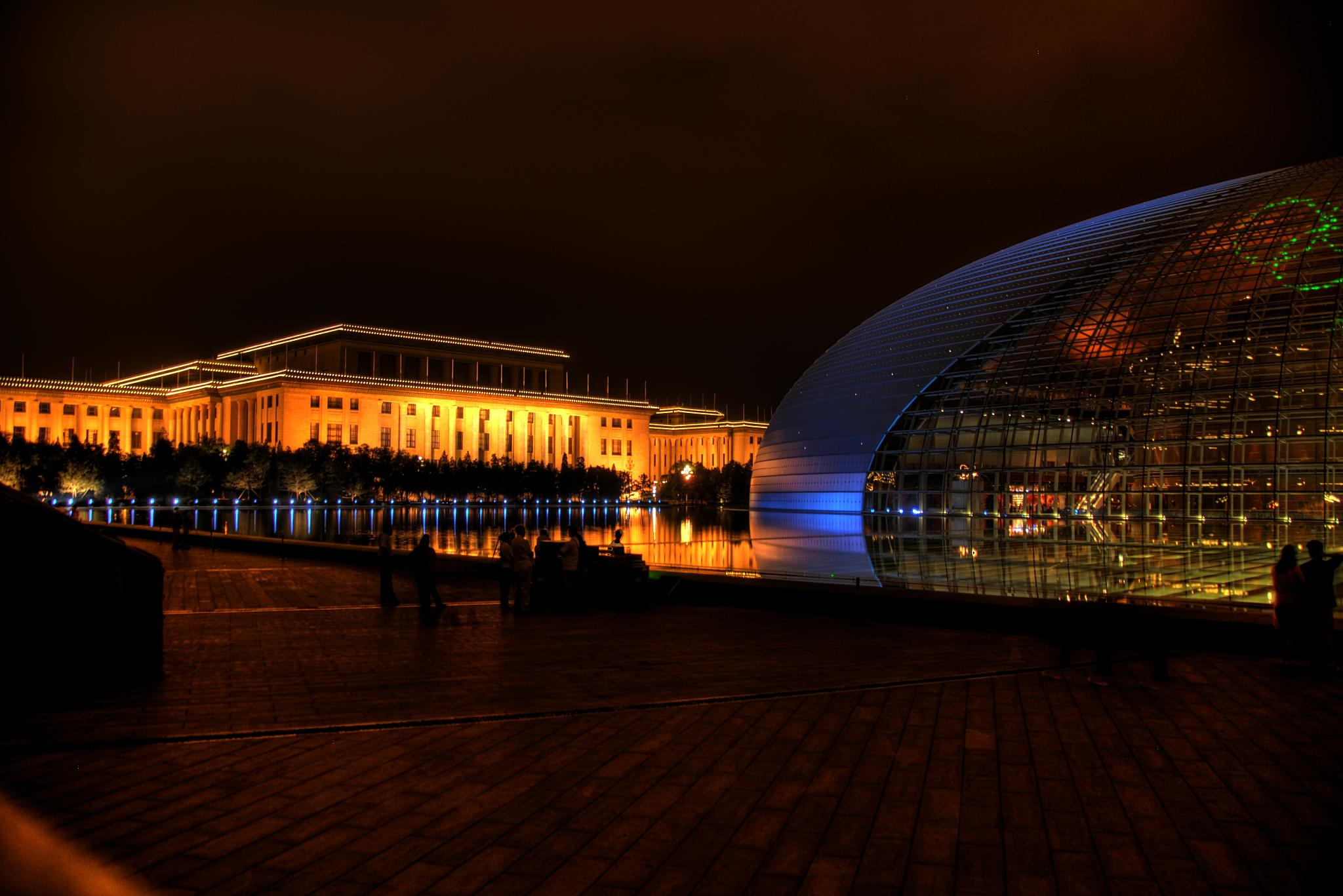 The National Centre for the Performing Arts in Beijing, China